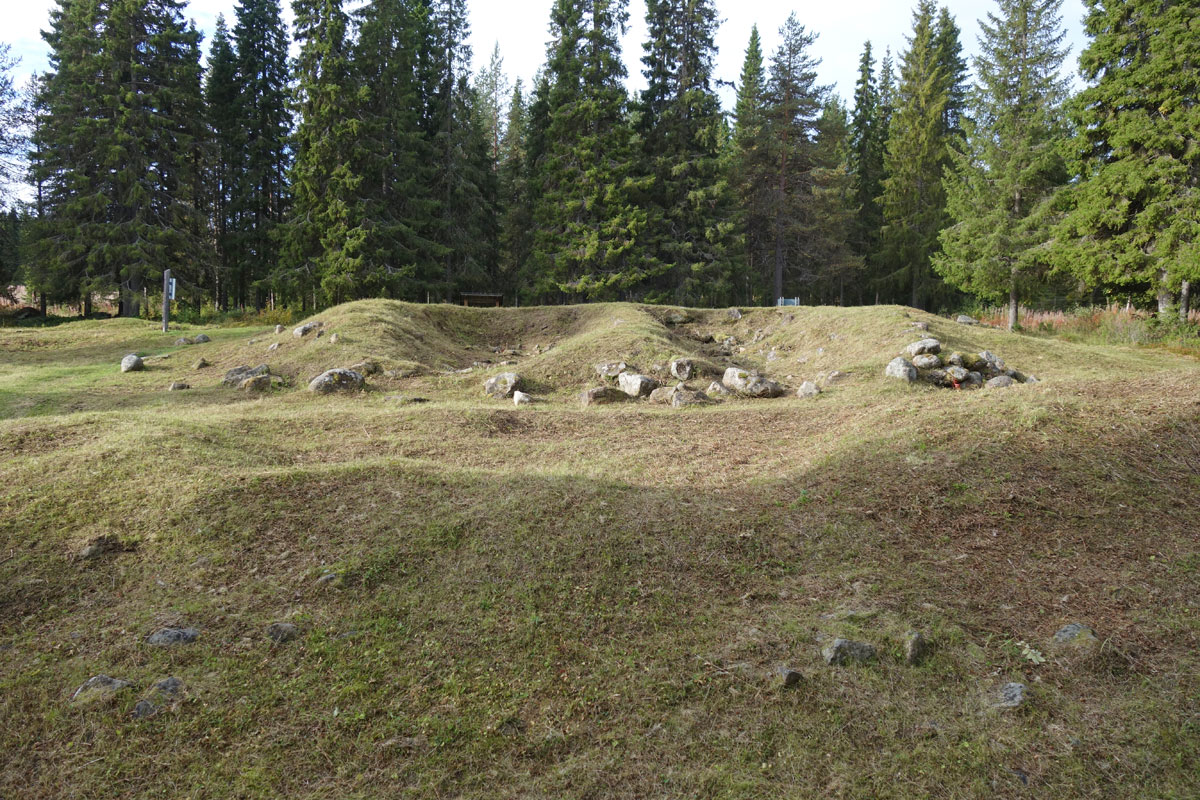 Ruins of roasting furnaces at Palokorva by the river Torneälven in northern Sweden.